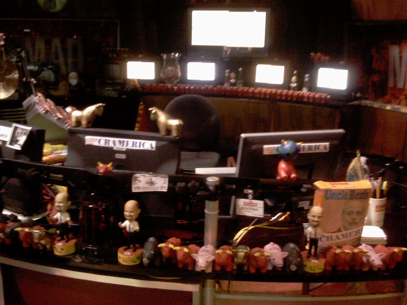 Mad Money Set